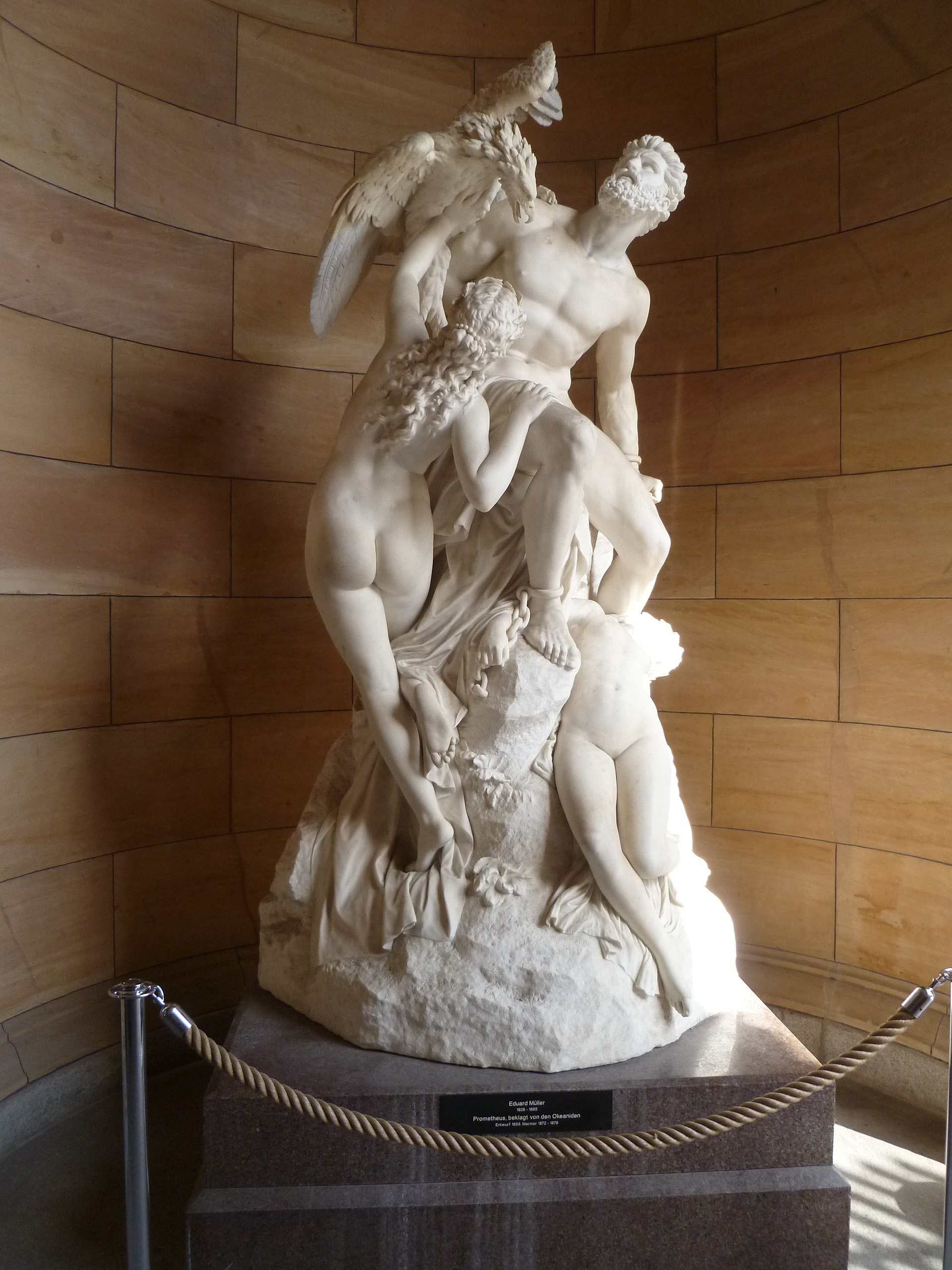 “Prometheus Bound and the Oceanids” (1872-79), National Gallery, Berlin, chiseled out of a single block of marble